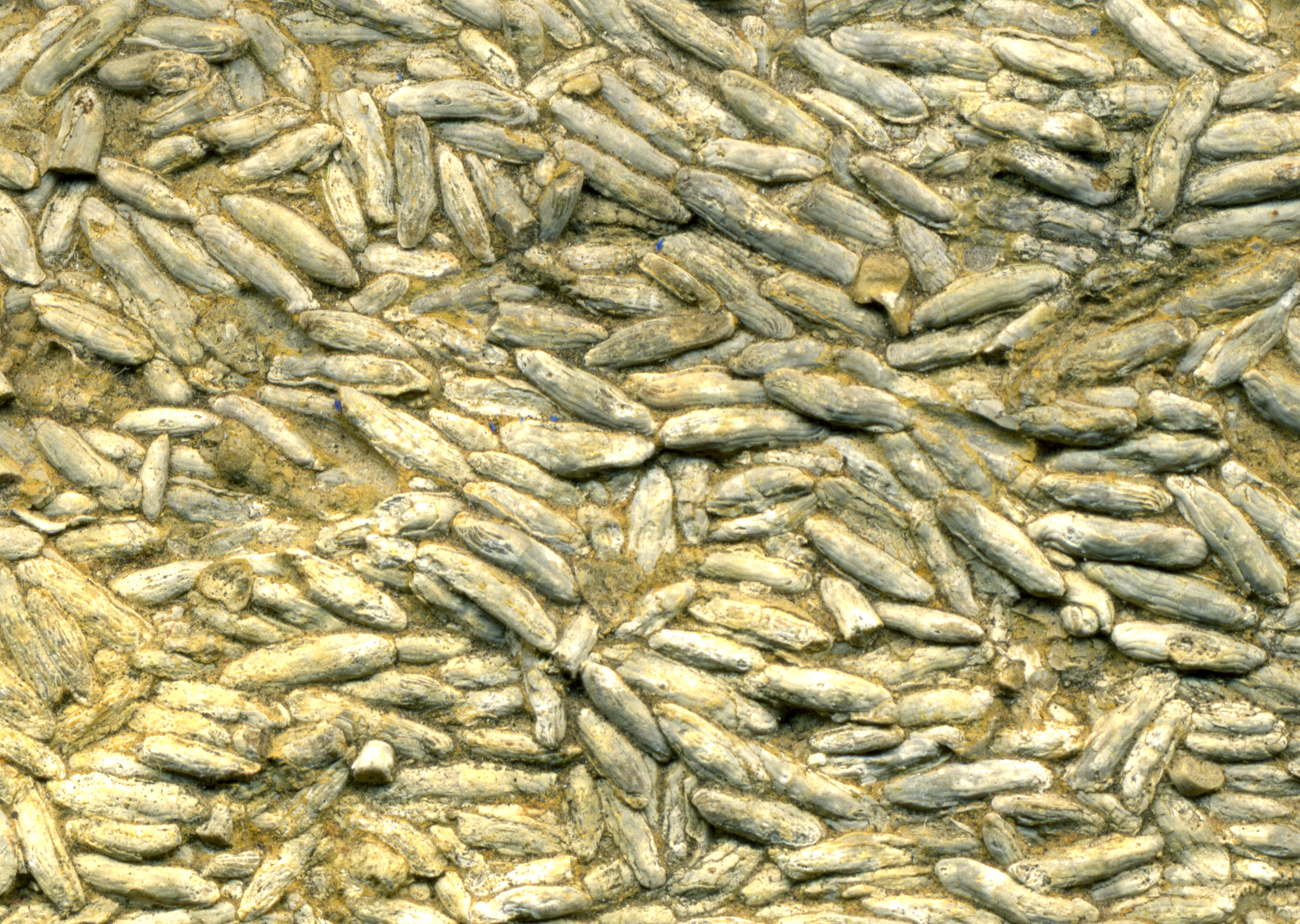 Fusulinid limestone (~3.9 cm across) from the Pennsylvanian of Kansas, USA. This is one of the most amazing fossiliferous limestones I've ever seen. The surface shown here is a monospecific concentration of fusulinid foraminifera ("forams"). Fusulinids are an extinct group of large, benthic forams. They had elongated, rice-like skeletons (tests). The other (non-photogenic) side of this limestone is also covered with numerous fusulinids, plus a small section of crinoid steam, a Euphemites bellerophontid mollusc, and a Knightites bellerophonitd mollusc. Stratigraphy: Raytown Member, Iola Formation, Kansas City Group, Missourian Series, lower Upper Pennsylvanian Locality: Elk County, southeastern Kansas, USA